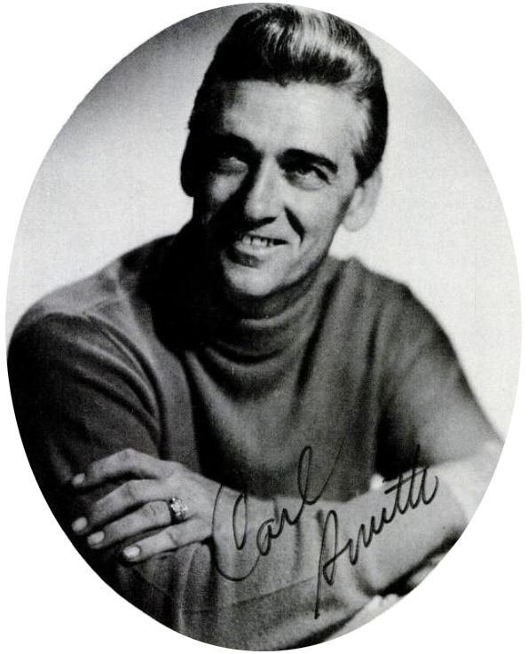 Trade ad for Carl Smith's single "You Ought to Hear Me Cry". To better adapt it to his respective Wikipedia article, the ad was cropped and cleaned in a graphics editing program. The original can be viewed at the source below.